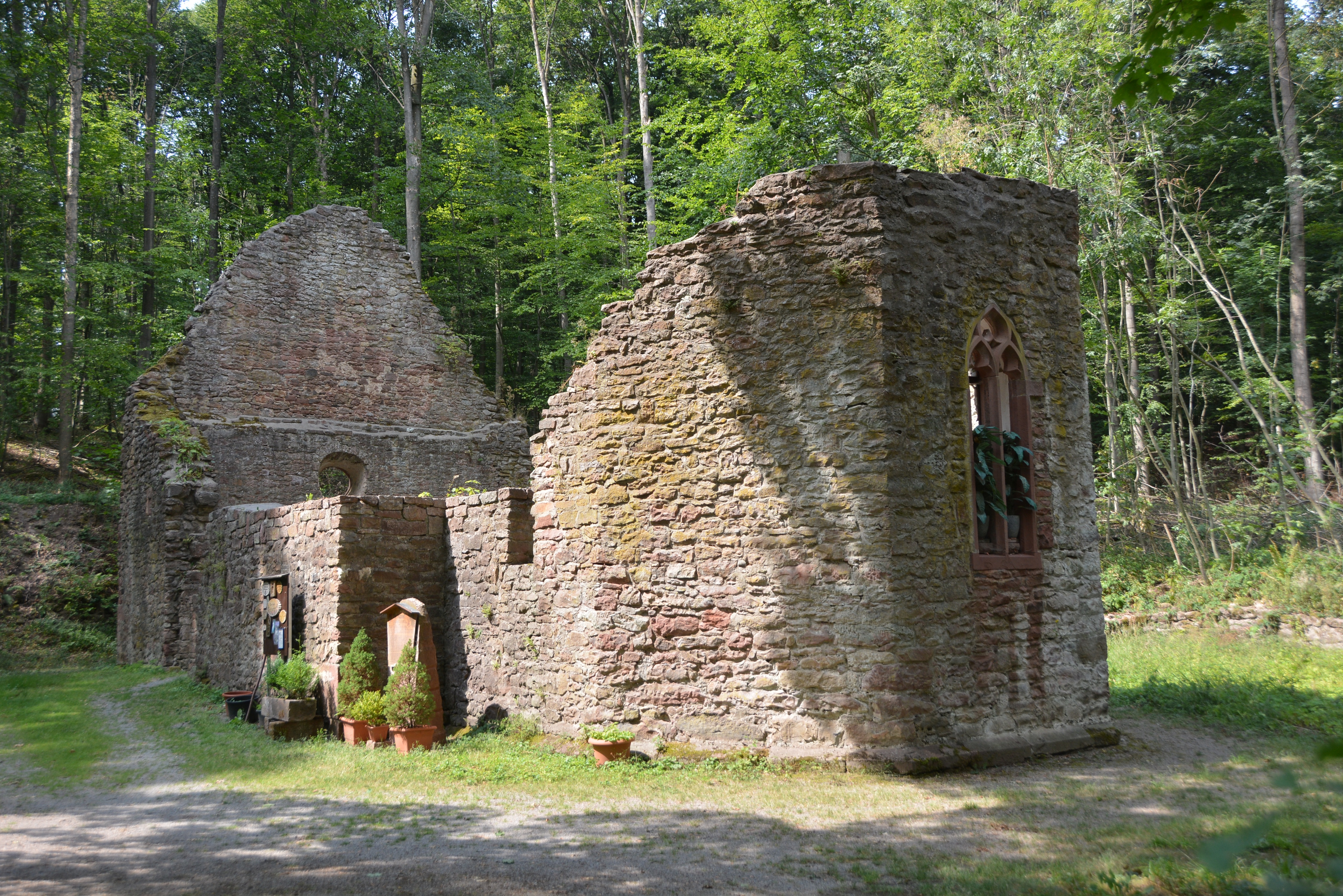 Kappel near Dornberg (Hardheim), Germany, ruin of a hermit chapel from 14th century, abandoned 1791